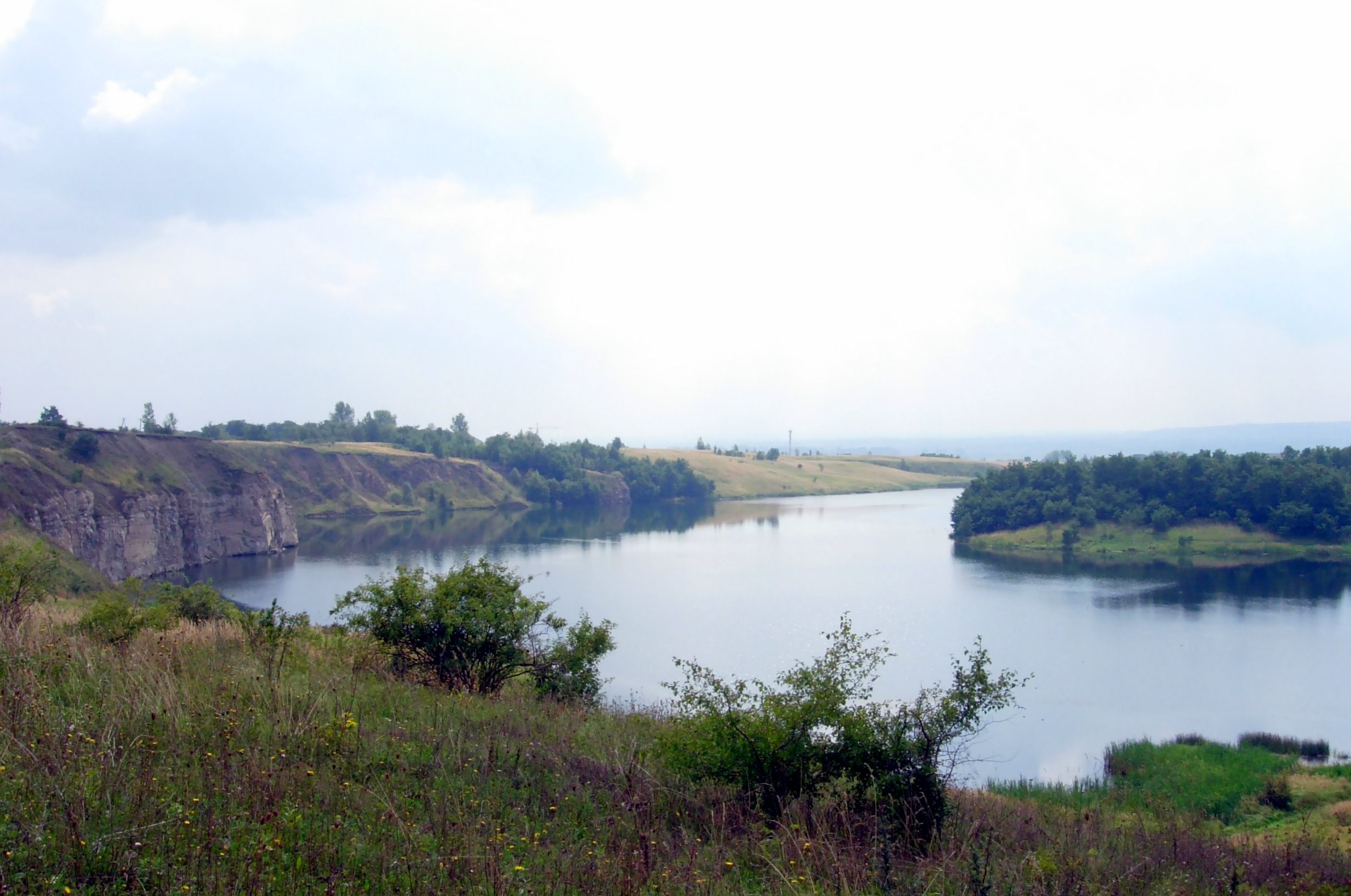 Old quarry in Gacki, Poland